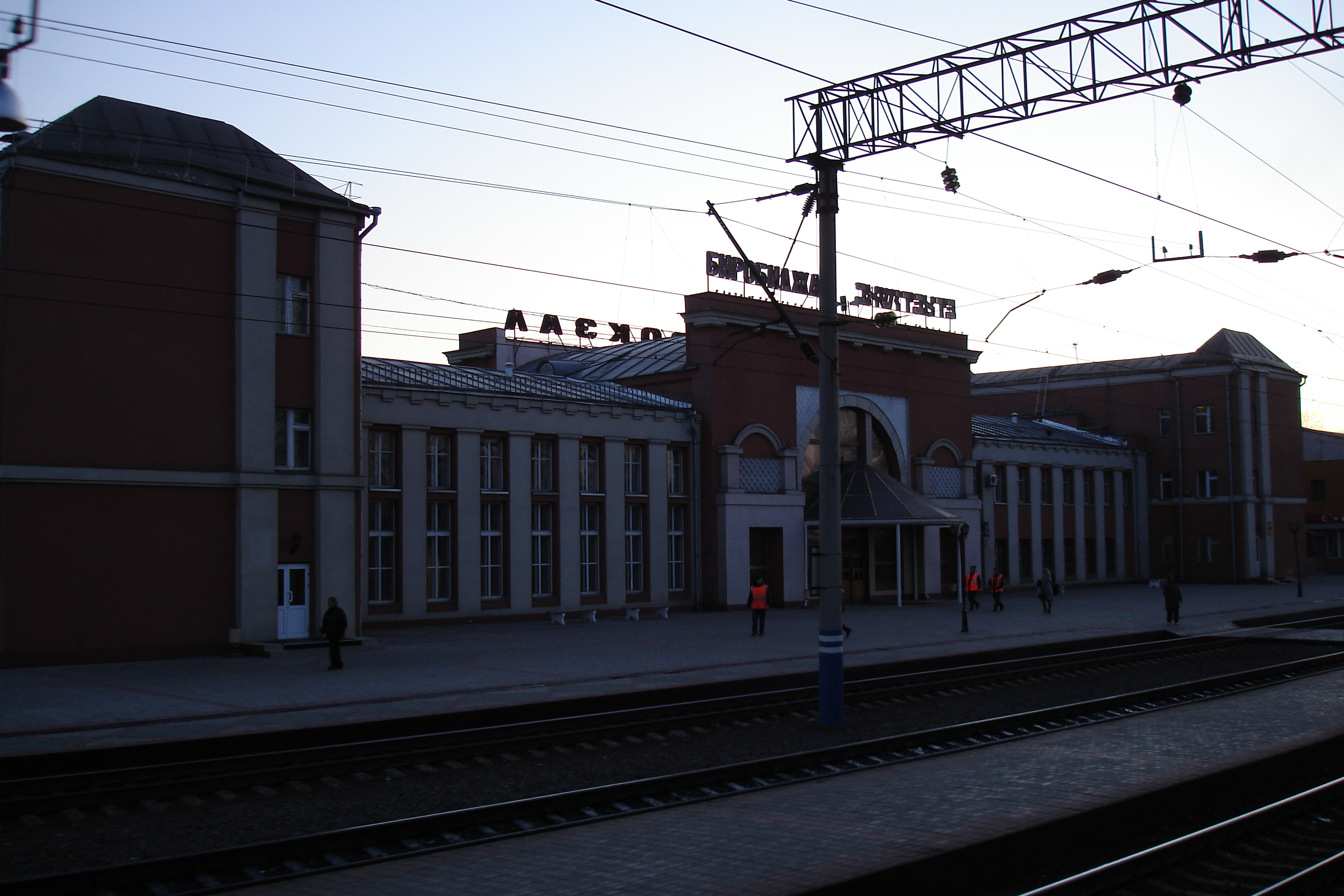 Birobidzhan railroad station